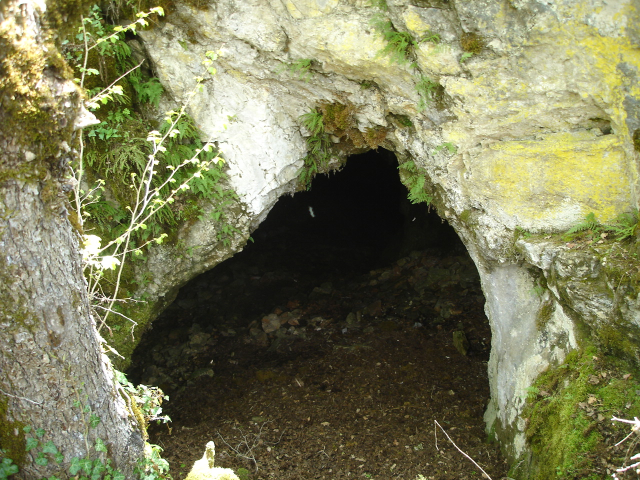 Svetla or Ledena (icy, bright) cave, near Nova Breznica, Macedonia